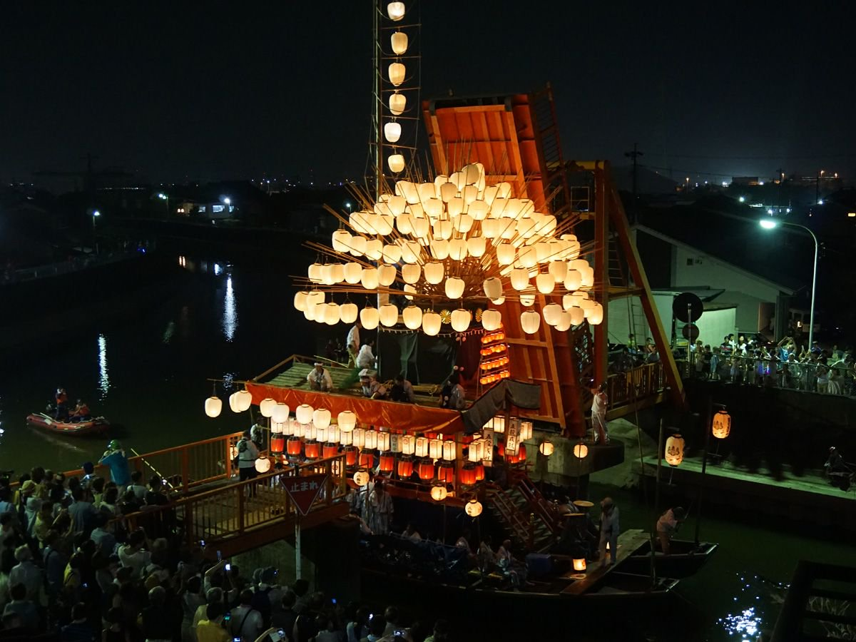 Sunari Festival at night.